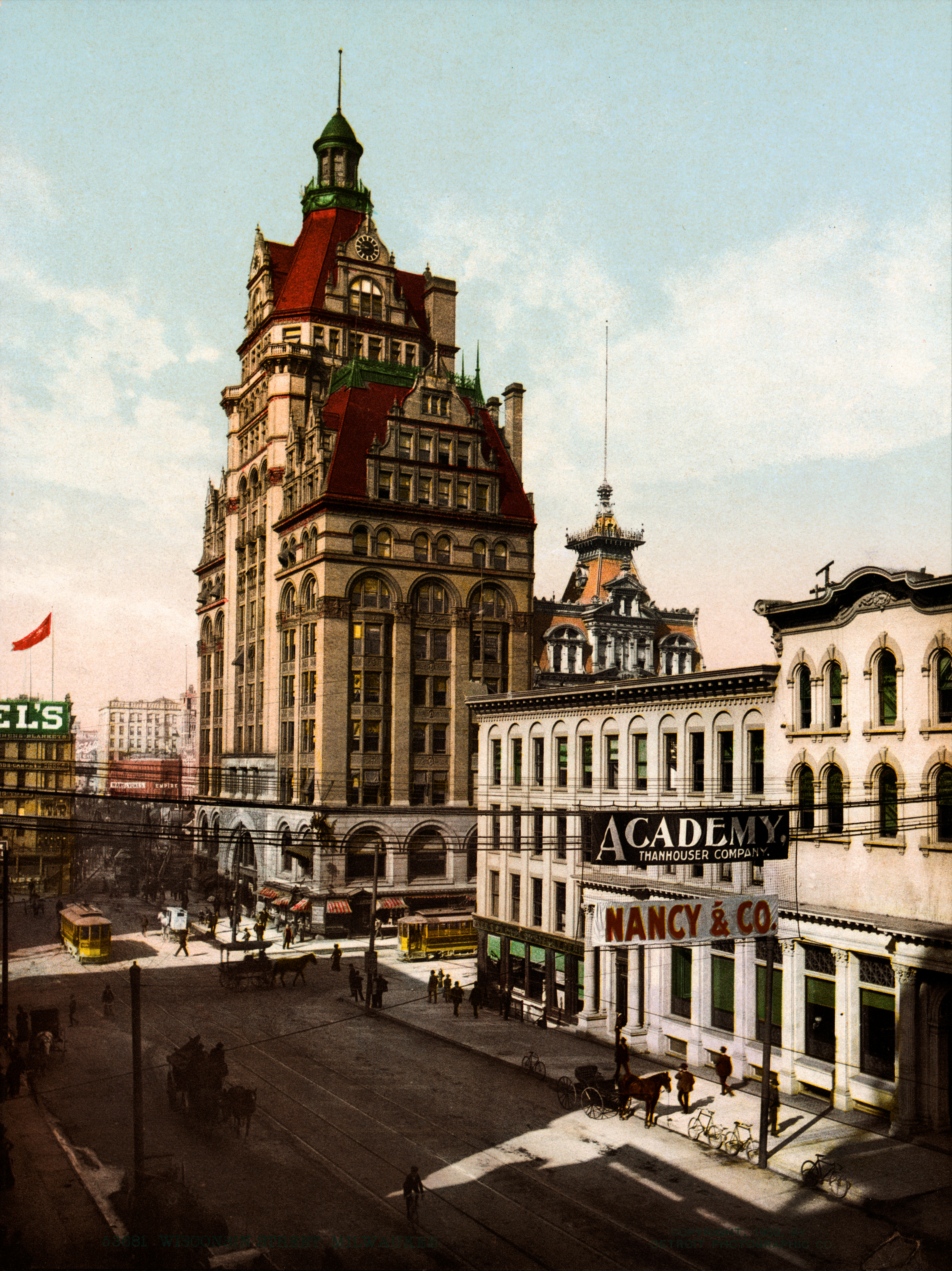 Photocrom of Wisconsin Street in Milwaukee, Wisconsin. Skyscraper: Pabst Building